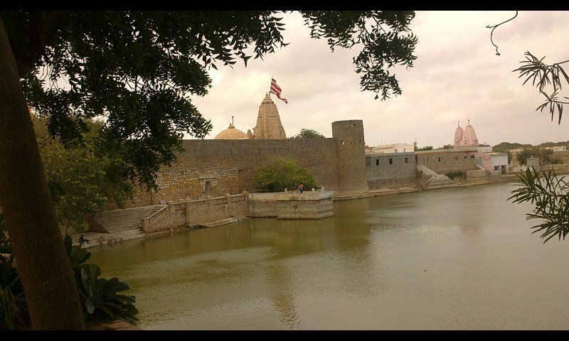 Old Temple